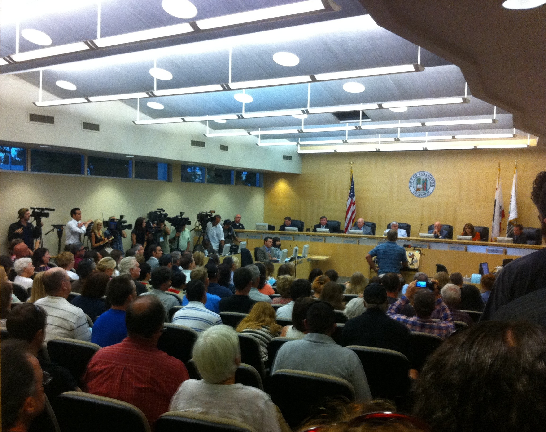 Fullerton City Council chambers, August 2, 2011. Representative view of a suburban city council chamber size and dais. Not representative of number of people because of large media interest due to the Kelly Thomas police beating. On the dais, from left to right - Police Chief Michael Sellers (in uniform), City Attorney Richard D.Jones, Councilman Bruce Whitaker, Mayor Pro Tem Don Bankhead, Mayor Dick Jones, Councilman Pat McKinley, Councilwoman Sharon Quirk-Silva, City Manager Joe Felz. Speaking - Ron Thomas, father of Kelly Thomas, who was allegedly killed by Fullerton police on July 5, 2011.